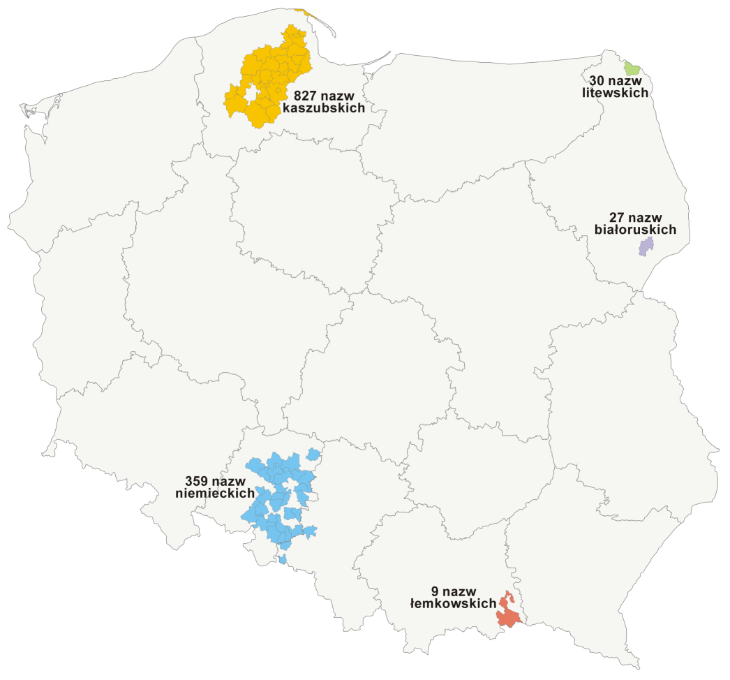 Communes in Poland in which the additional minority names were introduced (as of 9 April 2019)